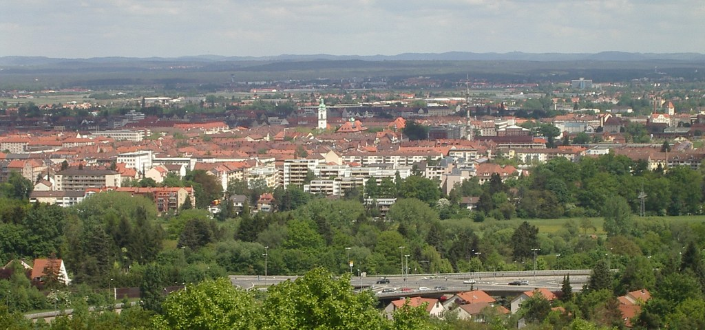 Fürth (Südstadt and Dambach) as seen from the "Alte Veste" (Zirndorf), from south-west. The Tower in the middle belongs to the neo-baroque St. Paulus Church.